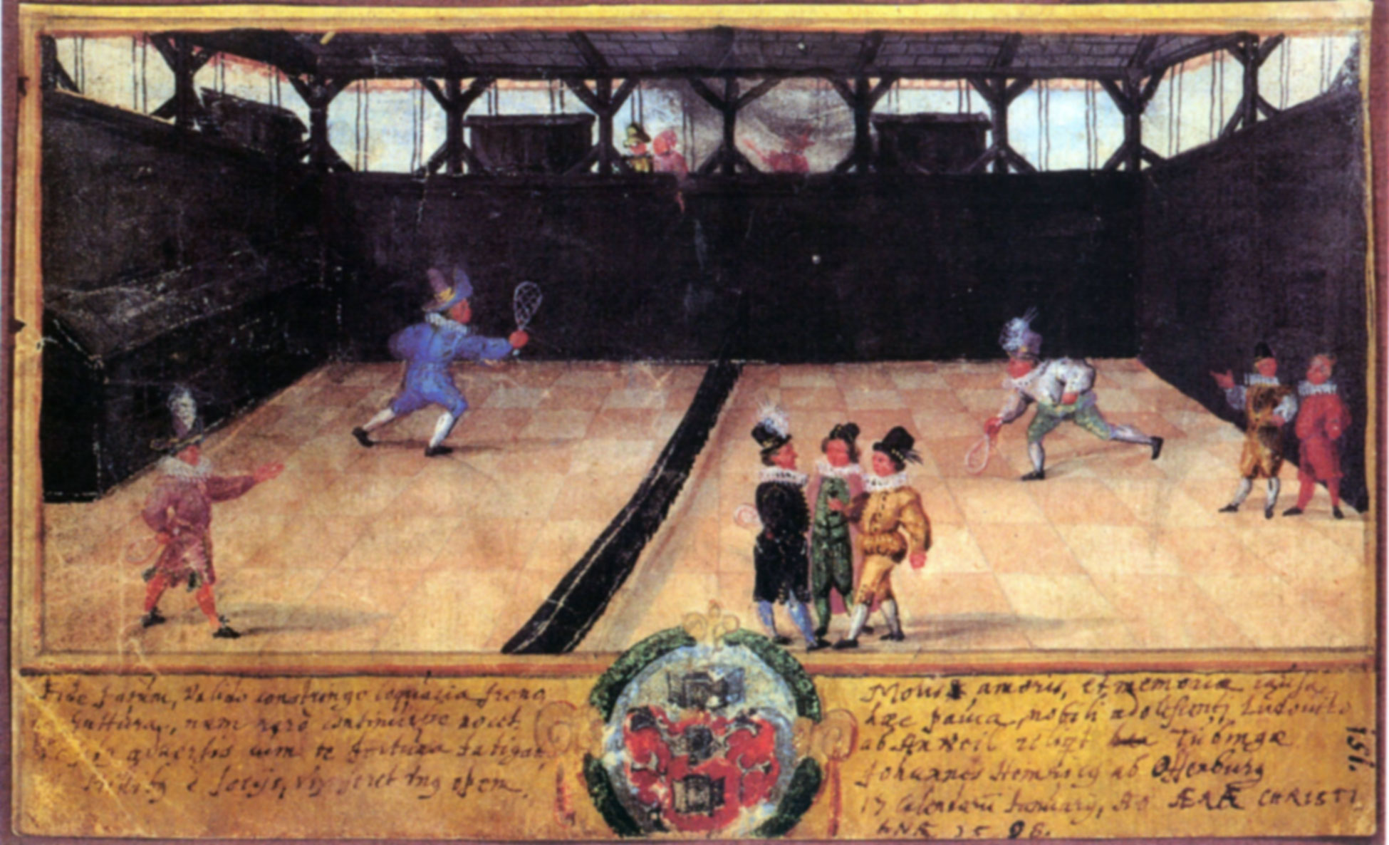 Tennis court in Ballhaus of the Collegium Illustre at Tübingen (drawing from a student sketchbook)